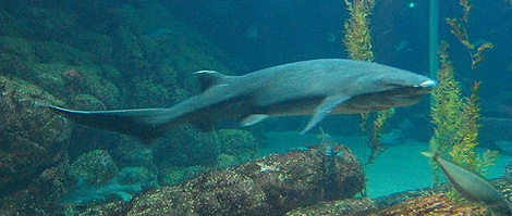 Bluntnose sevengill shark (Notorynchus cepedianus) at the Monterey Bay Aquarium